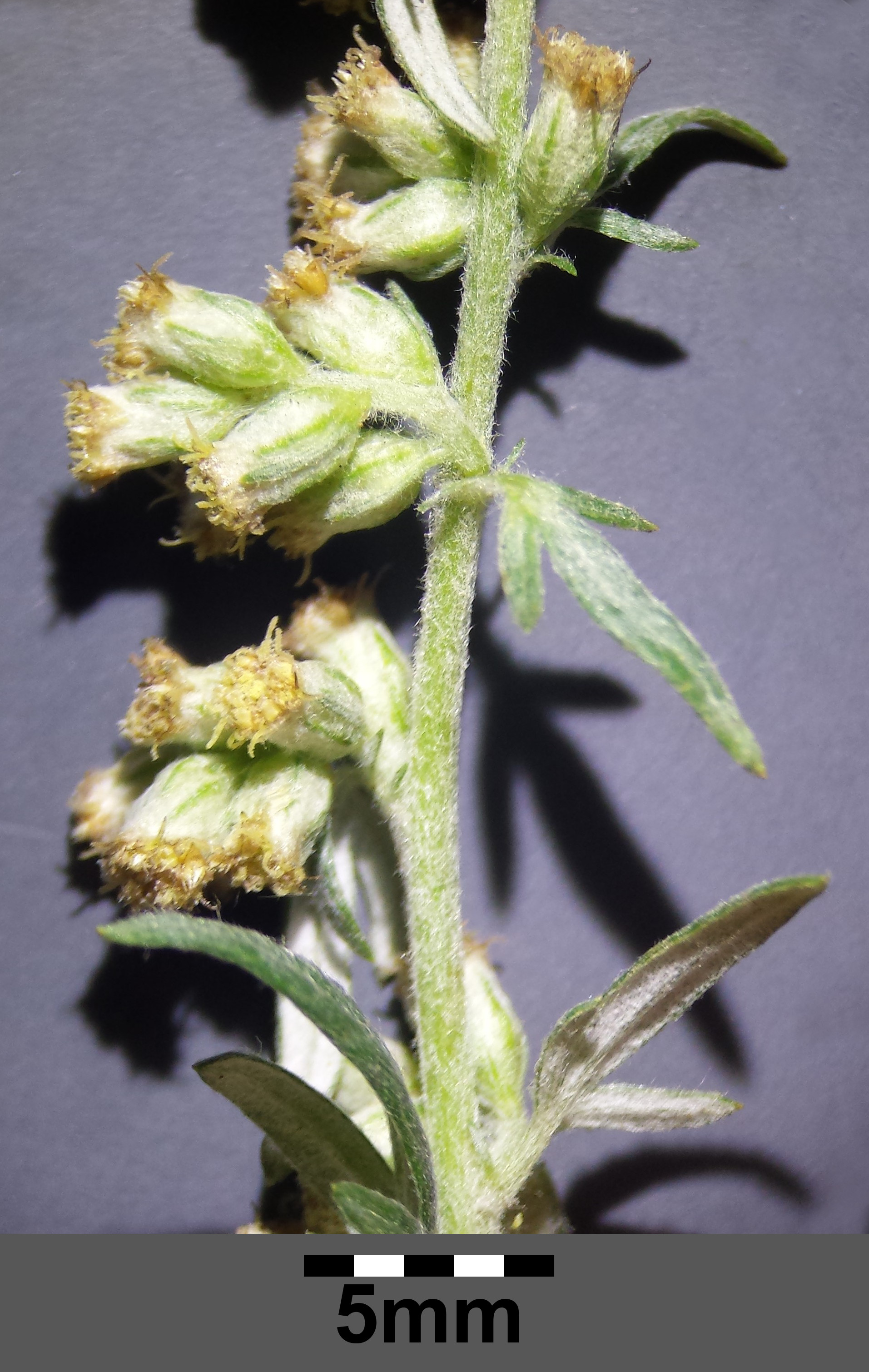 Inflorecence Taxonym: Artemisia vulgaris ss Fischer et al. EfÖLS 2008 ISBN 978-3-85474-187-9 Location: near Niederhollabrunn, district Korneuburg, Lower Austria - ca. 350 m a.s.l. Habitat: ruderal area